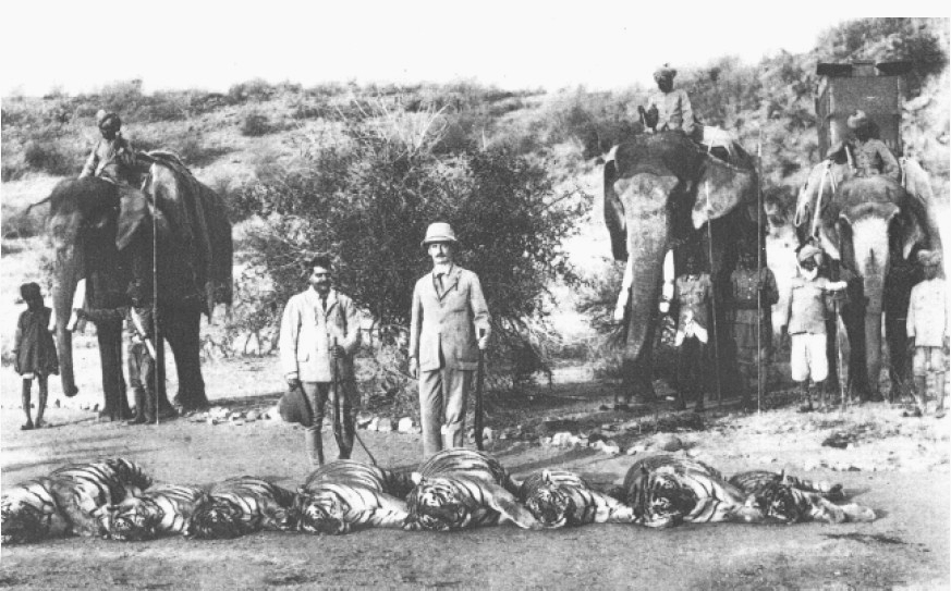 Tiger Hunt by Lord Reading, Viceroy of India